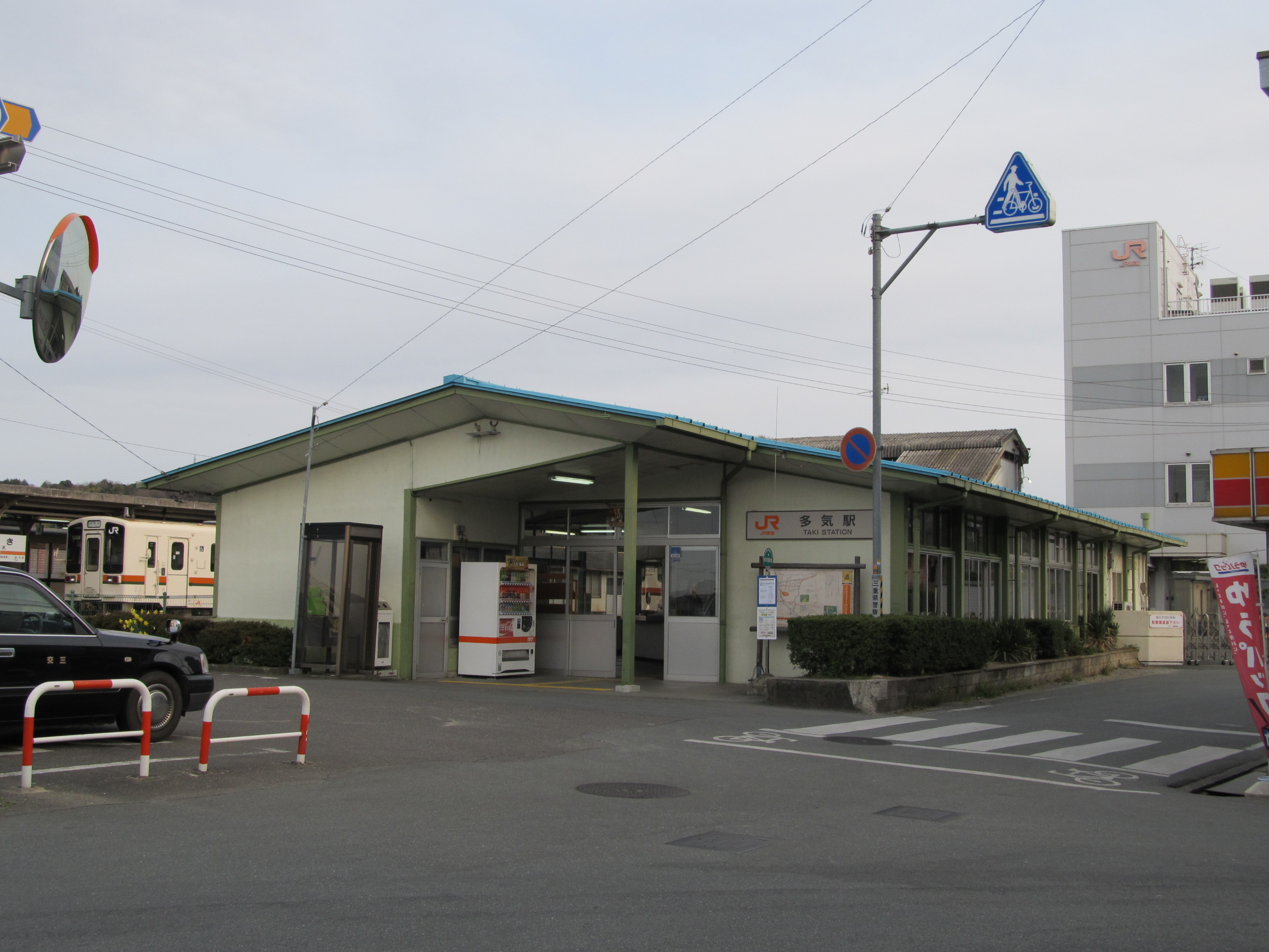 Central Japan Railway Kisei Line and Sangū Line Taki Station Building